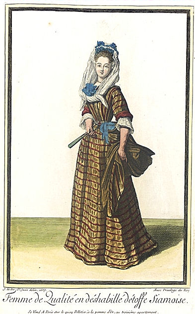 Woman in dress made of Siamoise material 1687, holding a folded fan. Her headgear comes down to be tied in front as a fichu.